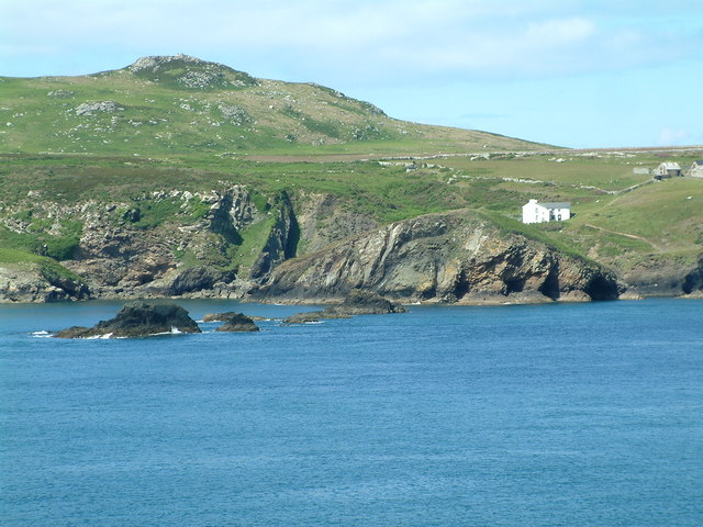 The Bitches, Ramsey Sound The notorious Bitches reef in Ramsey Sound near the landing point below the farmhouse. The highest point on the island, Carnllundain (136 Metres asl) is also in view.